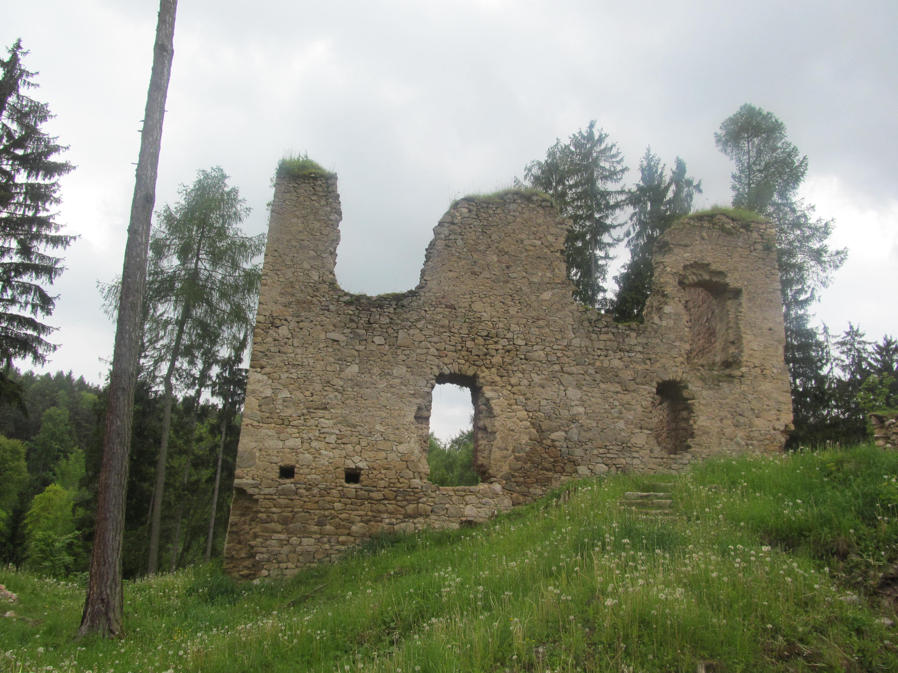 Pořešín Castle: Exterior of the Palaste